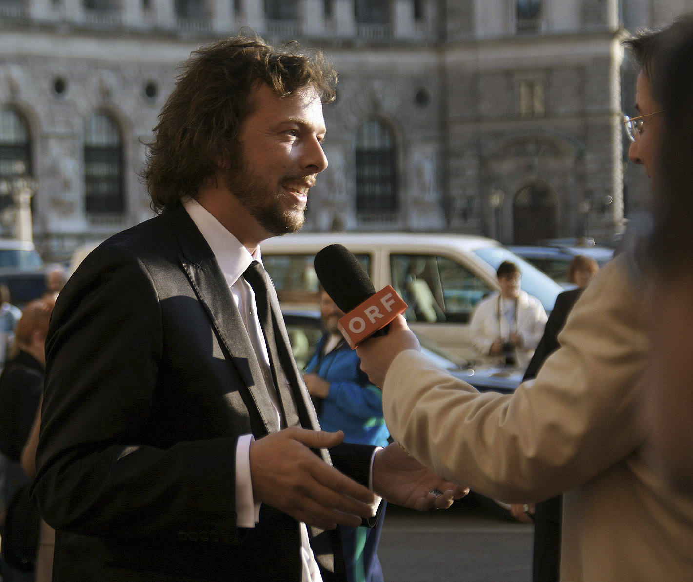 Robert Kratky at the Romy TV awards (Hofburg Imperial Palace in Vienna)